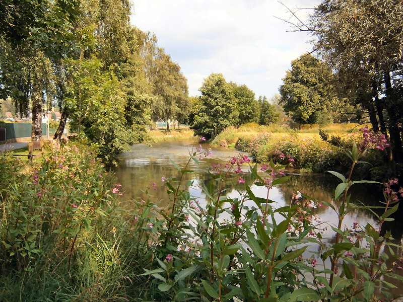 Nethe River